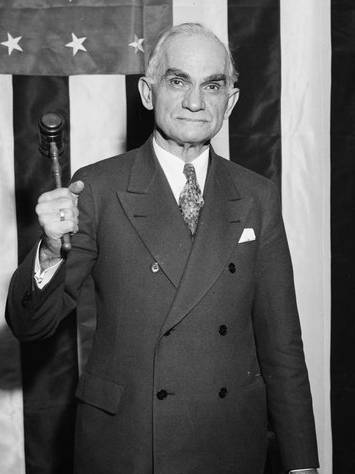 Cropped photograph of U.S. Speaker of the House of Representatives, Joseph Byrns.